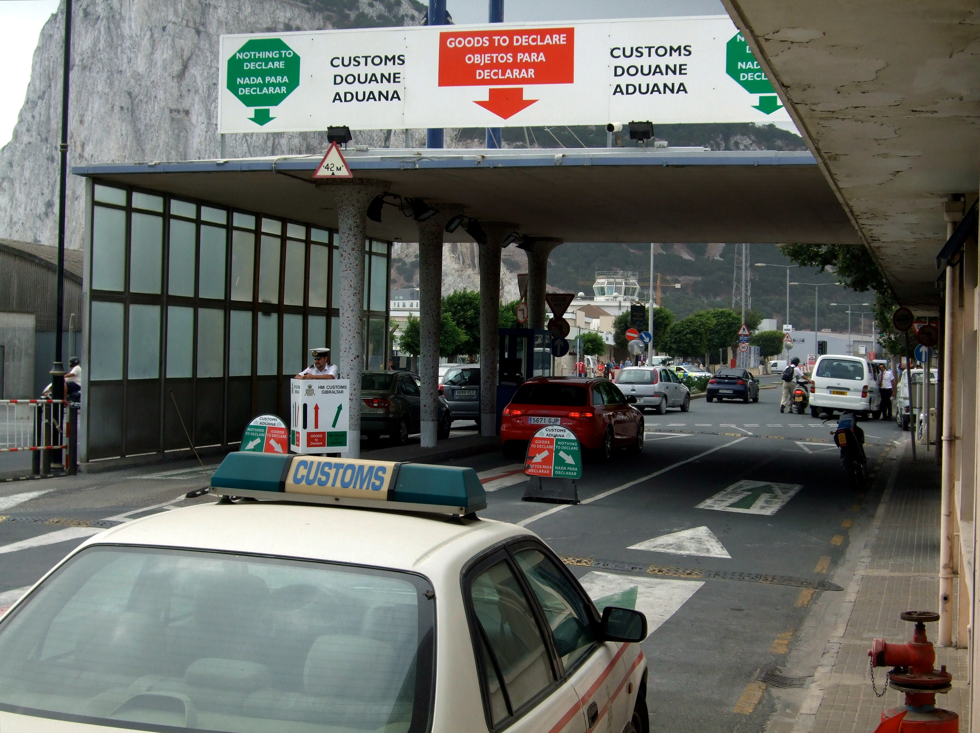 Gibraltar Customs side of the Spain-Gibraltar frontier, Winston Churchill Avenue, Gibraltar. By foot you have to deal with two passport control and customs points. I can't see the point being made in all this apart from a stupid political one.